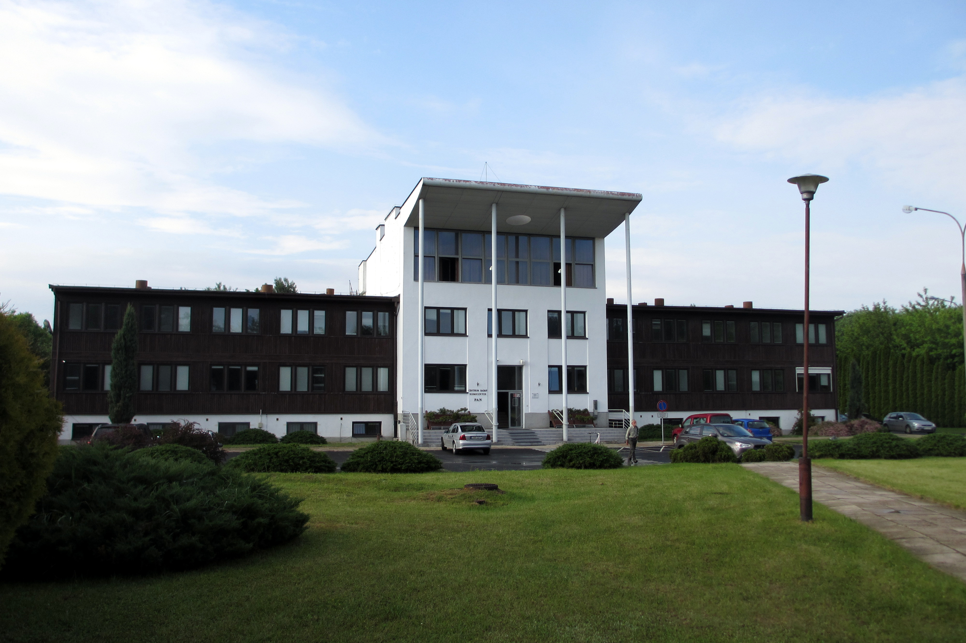 The Space Research Centre (SRC, in Polish Centrum Badań Kosmicznych), part of Polish Academy of Sciences in Warsaw, Poland